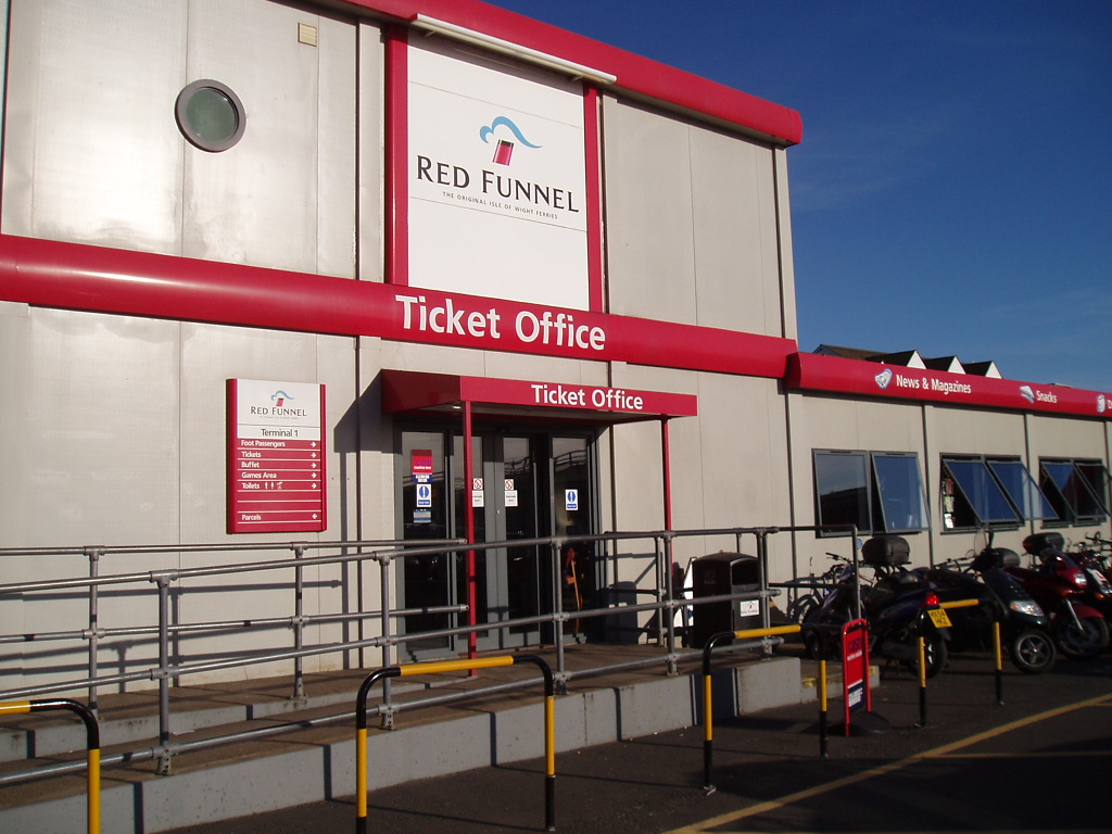 Red Funnel Ferry Terminal, Southampton